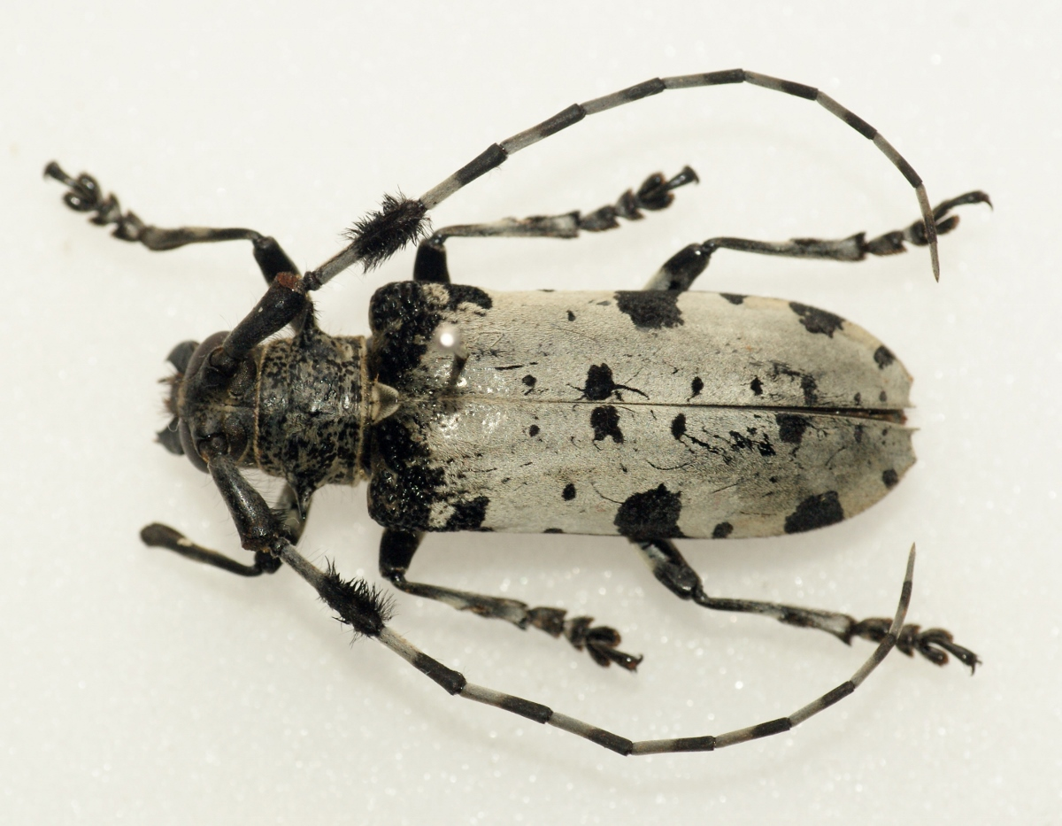 Aristobia angustifrons Gahan, 1888 det. F. Vitali Sex: Male Data: 08-2010 - Wiang Papao - Chiang Rai - North Thailand Size: ?